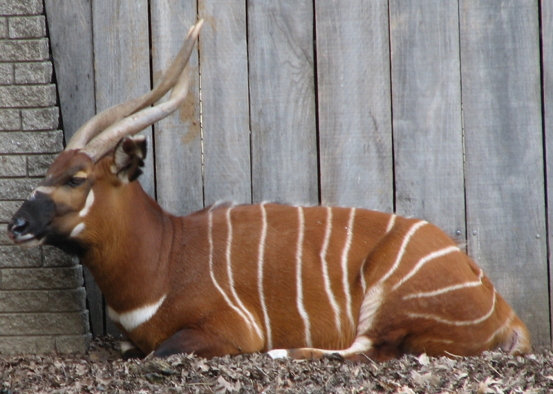 Bongo - Tragelaphus eurycerus isaaci at Louisville Zoo in Kentucky